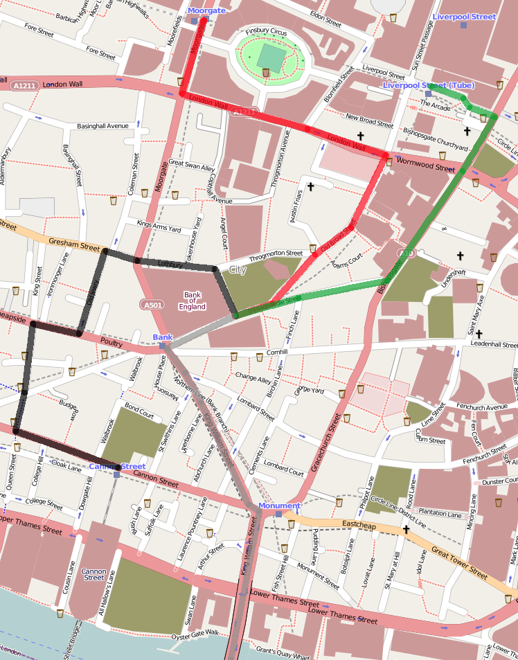 The routes of the marches for the G20 Meltdown protest on 1 April 2009. The 'Four Horsemen of the Apocalypse' led themed marches starting at 11 a.m.: Moorgate, the red horse against War; Liverpool St, the green horse against Climate chaos; London Bridge, the silver horse against Financial crimes; Cannon Street, the black horse against land enclosures and borders. Map is from